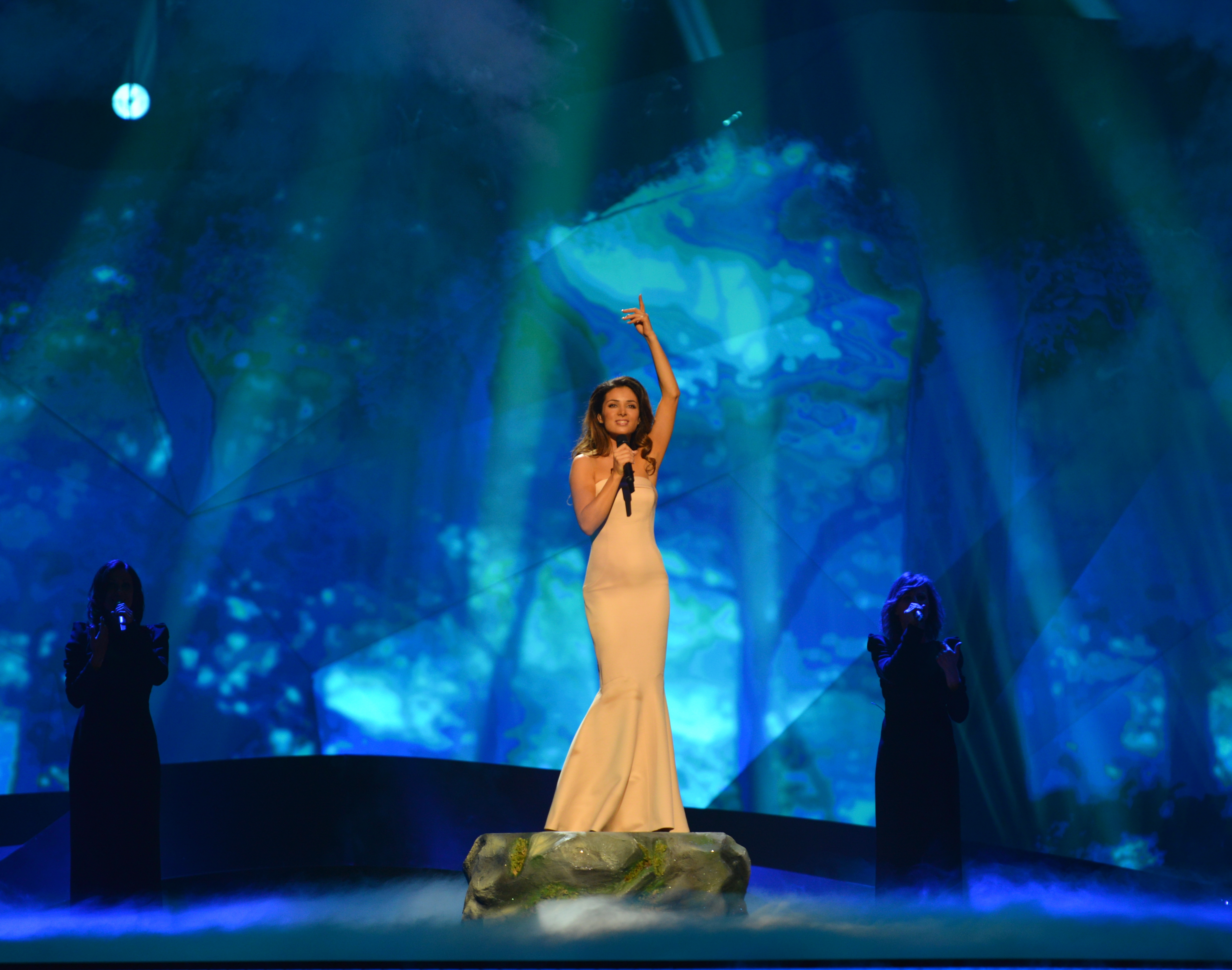 Zlata Ognevych from Ukraine performing her song Gravity in the first dress rehearsal for the first semi final of the Eurovision Song Contest 2013.